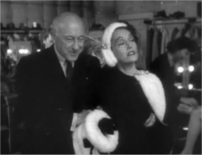 Screenshot taken by me (Icea) from the trailer to the movie Sunset Blvd.